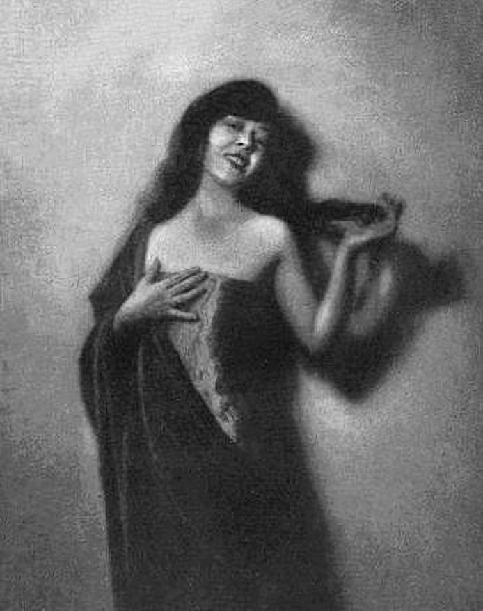 Actress Ann Pennington